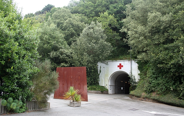 Jersey War Tunnels. The German Underground Hospital, H?angsanlage 8, was built between 1941 and 1944 by using forced labour from countries throughout conquered Europe. Its construction involved the removal of 43,900 tonnes of rock and the laying of 6,000 cubic meters of concrete. In 1944 it was converted from its original purpose as an underground artillery repair facility and barracks to a casualty clearing station capable of coping with up to 500 casualties. The unfinished complex has been restored and is now home to Captive Island, a museum depicting the German Occupation of Jersey. Link